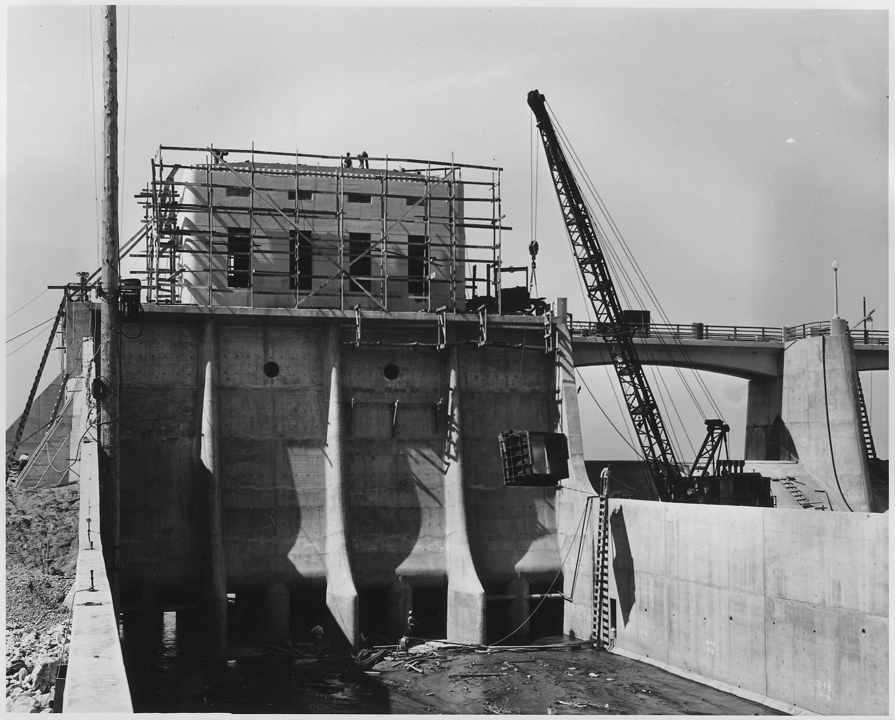 General notes: — Sepulveda Dam, on the Los Angeles River in the San Fernando Valley.